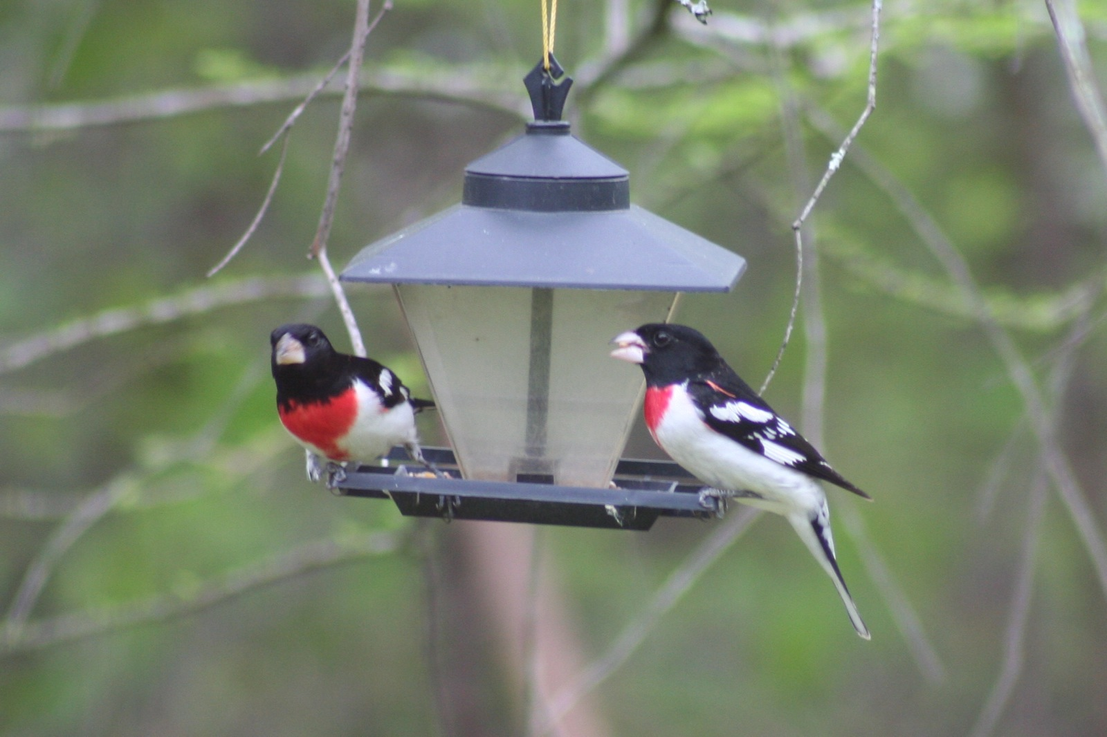 A pair of adult, breeding Rose-breasted Grosbeaks. This was my first sighting of this species.